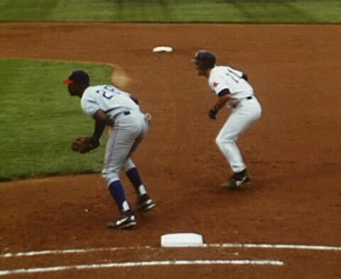 Julio Zuleta plays first base for the Rockford Cubbies against the Michigan Battle Cats in 1997.